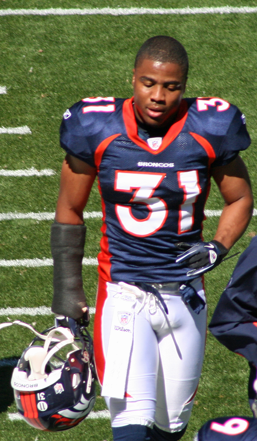 Darcel McBath, a player on the Denver Broncos American football team.